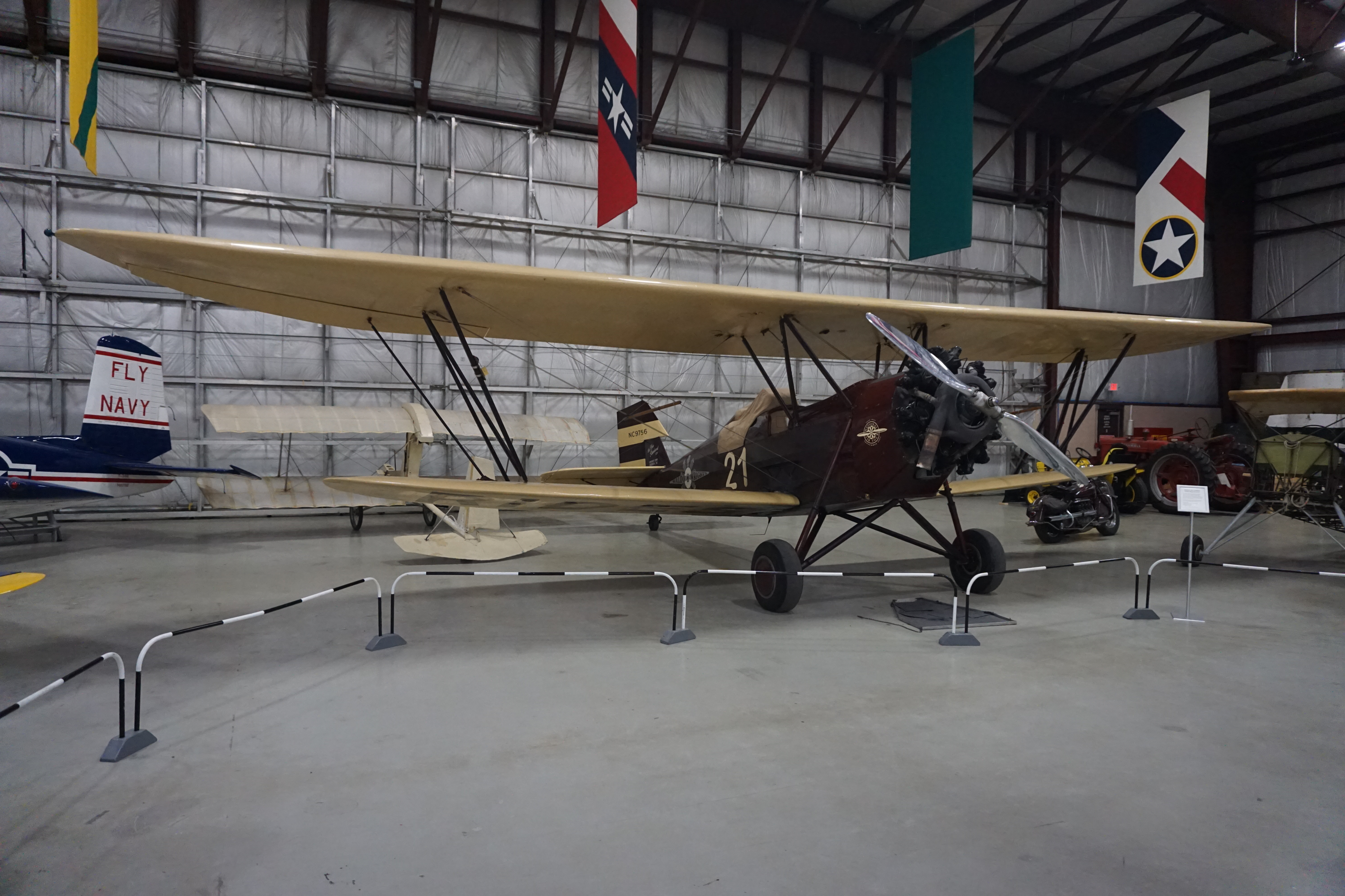 A New Standard D-25A on display at the Air Zoo at Kalamazoo/Battle Creek International Airport in Portage, Michigan (United States).